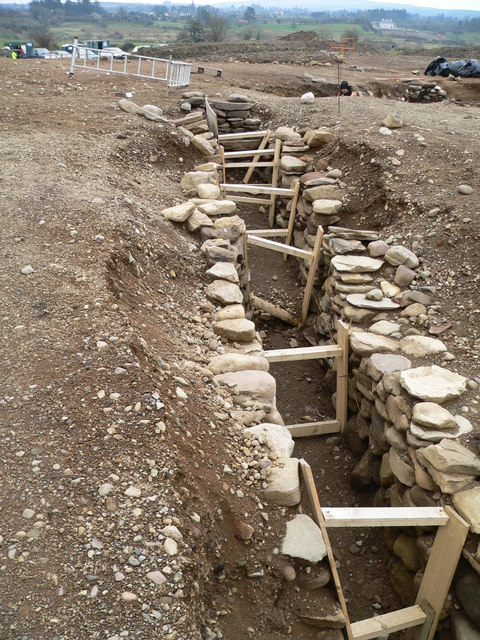 Souterrain